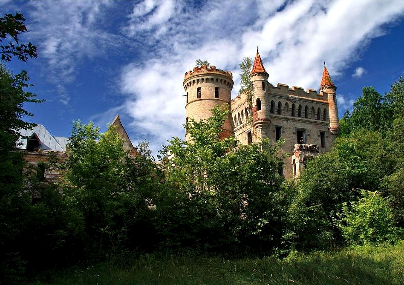 Part of the castle of estate «Muromtsevo»